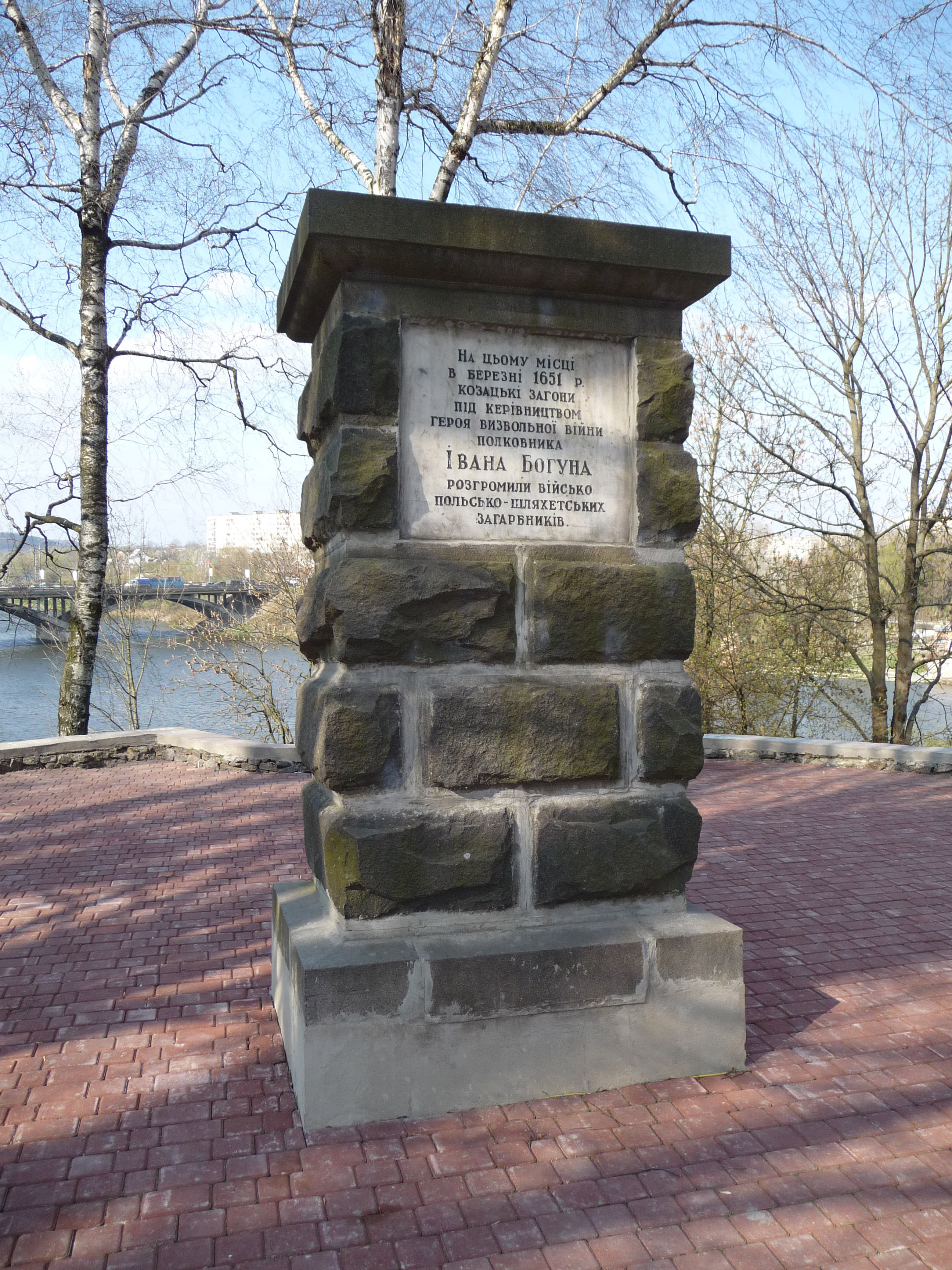 Memorial on a place of battle in March 1651 in Vinnytsia (Vinnitsa). Ivan Bohun against the Polish army. This place in city is called "Kumbary".